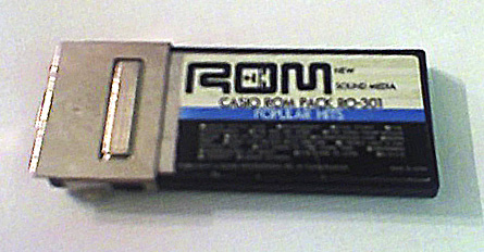 ROM Pack (RO-301 - POPULAR HITS) from my Casio PT-80 keyboard, which was made around 1982. The ROM was made in Japan in 1983. It includes songs such as 'Moon River', 'The Entertainer', 'Scarborough Fair', and 'Danke Schön'. Picture taken with a Motorola RAZR V3.